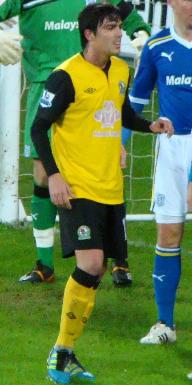 Mauro Formica, cropped 29/11/11 Cardiff V Blackburn, Carling Cup, Cardiff City Stadium, Cardiff, Wales